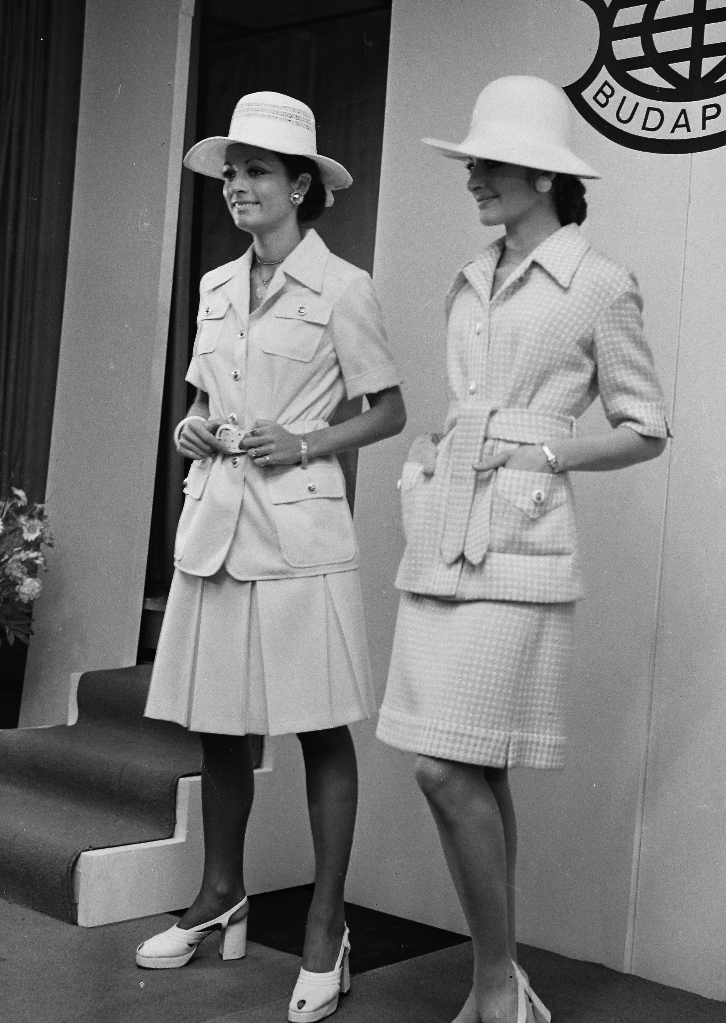 Csató